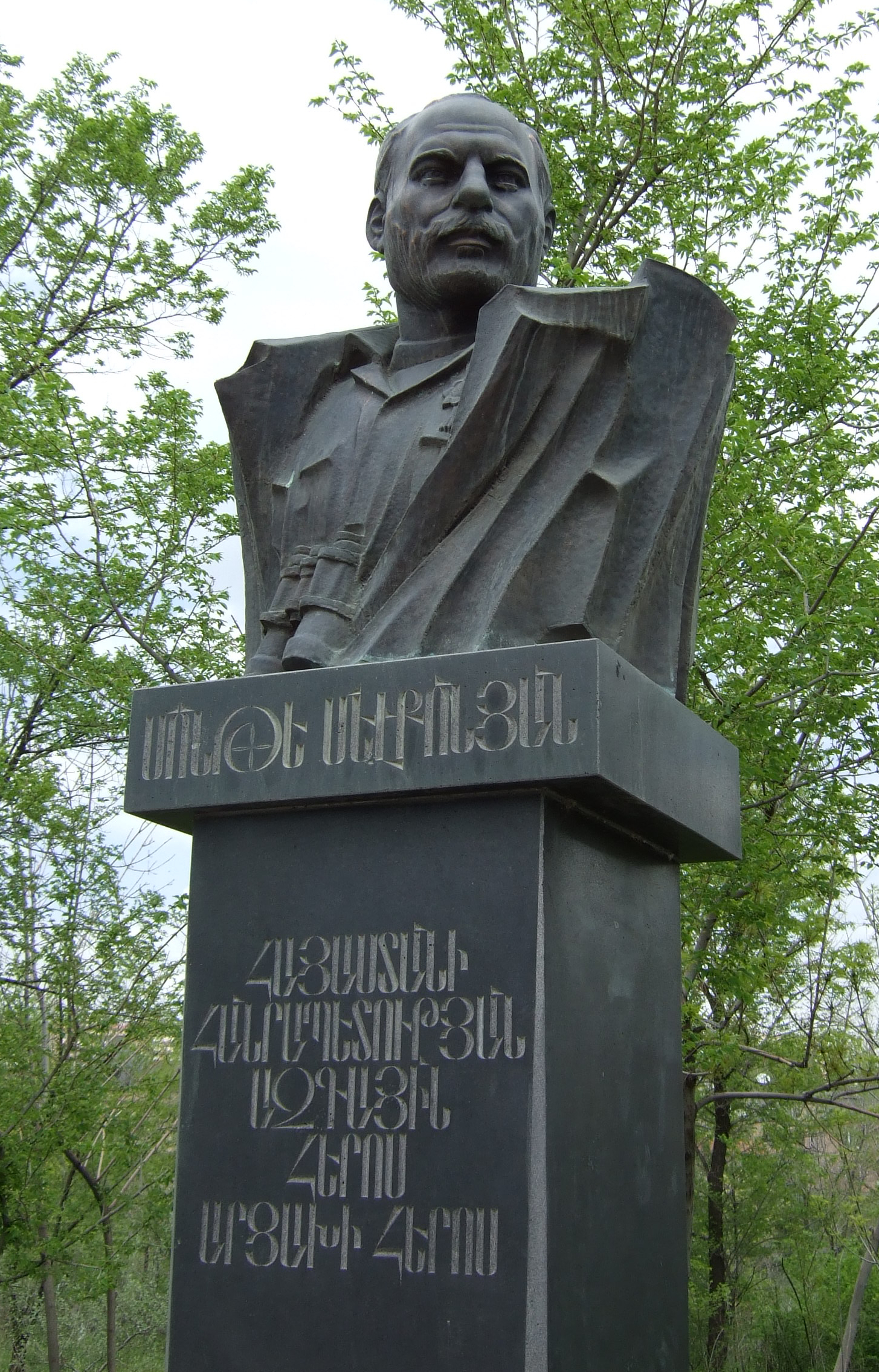 Statue of Monte Melkonian in Victory Park, Yerevan